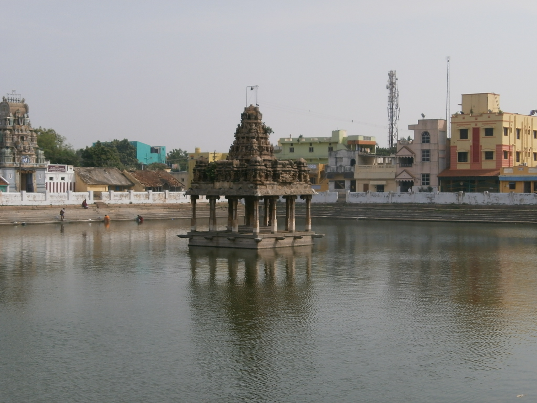 Sriperumbudur Sri Adikesava Perumal Temple Pond, near Chennai, Tamil Nadu, India, South Asia